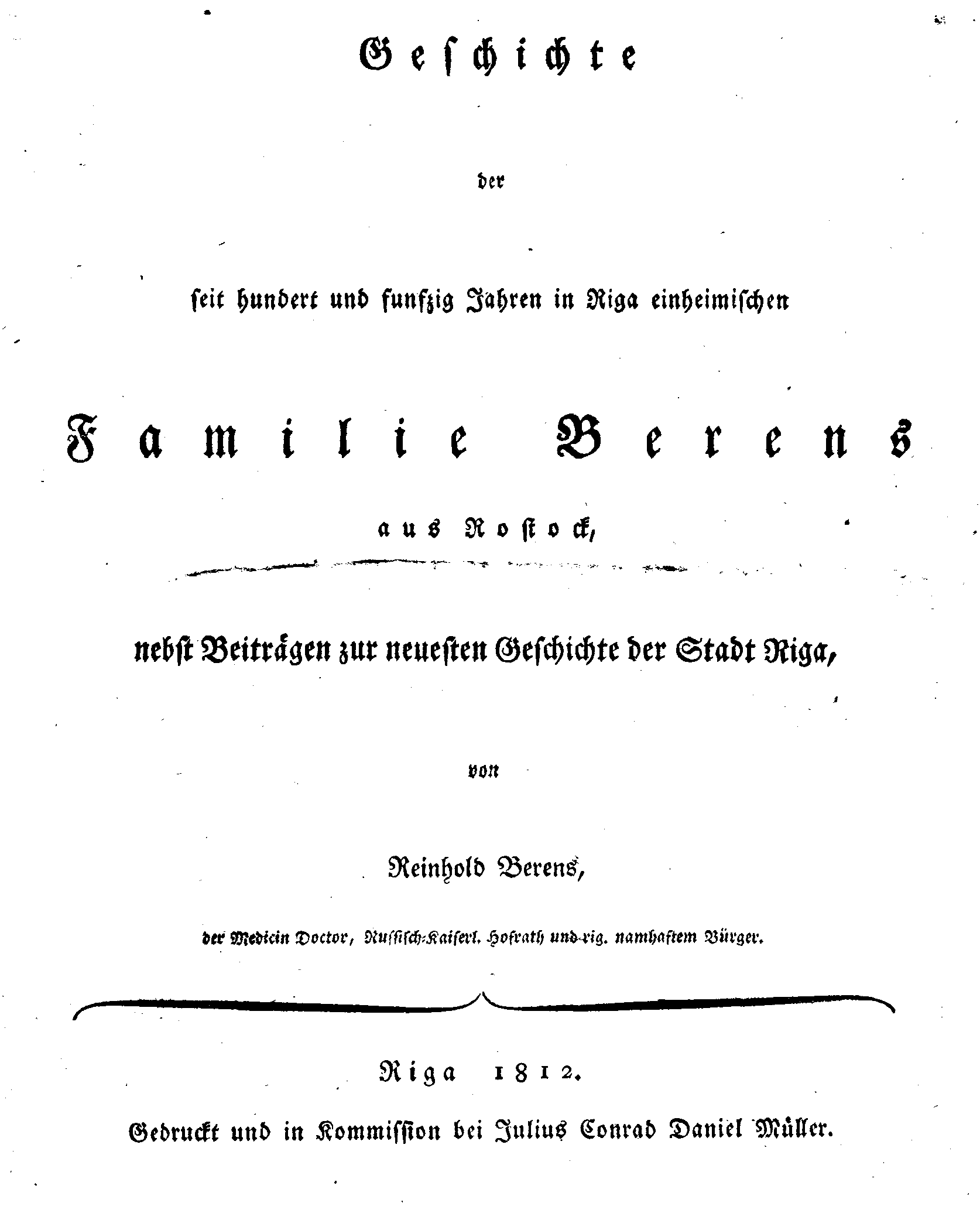 This is a scan of the historical document